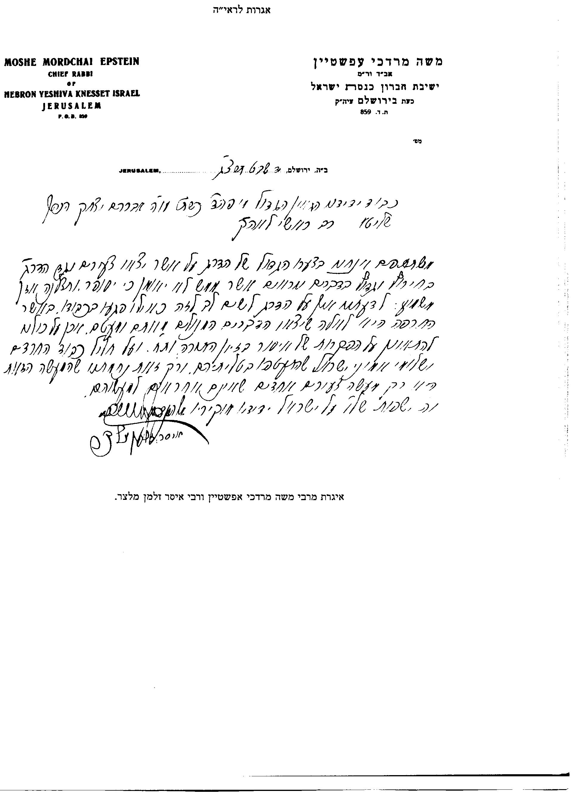 Letter written by Rav Moshe Mordechai Epstein and Rav Isser Zalman Meltzer in support and defense of Rav Avraham Yitzchok Kook